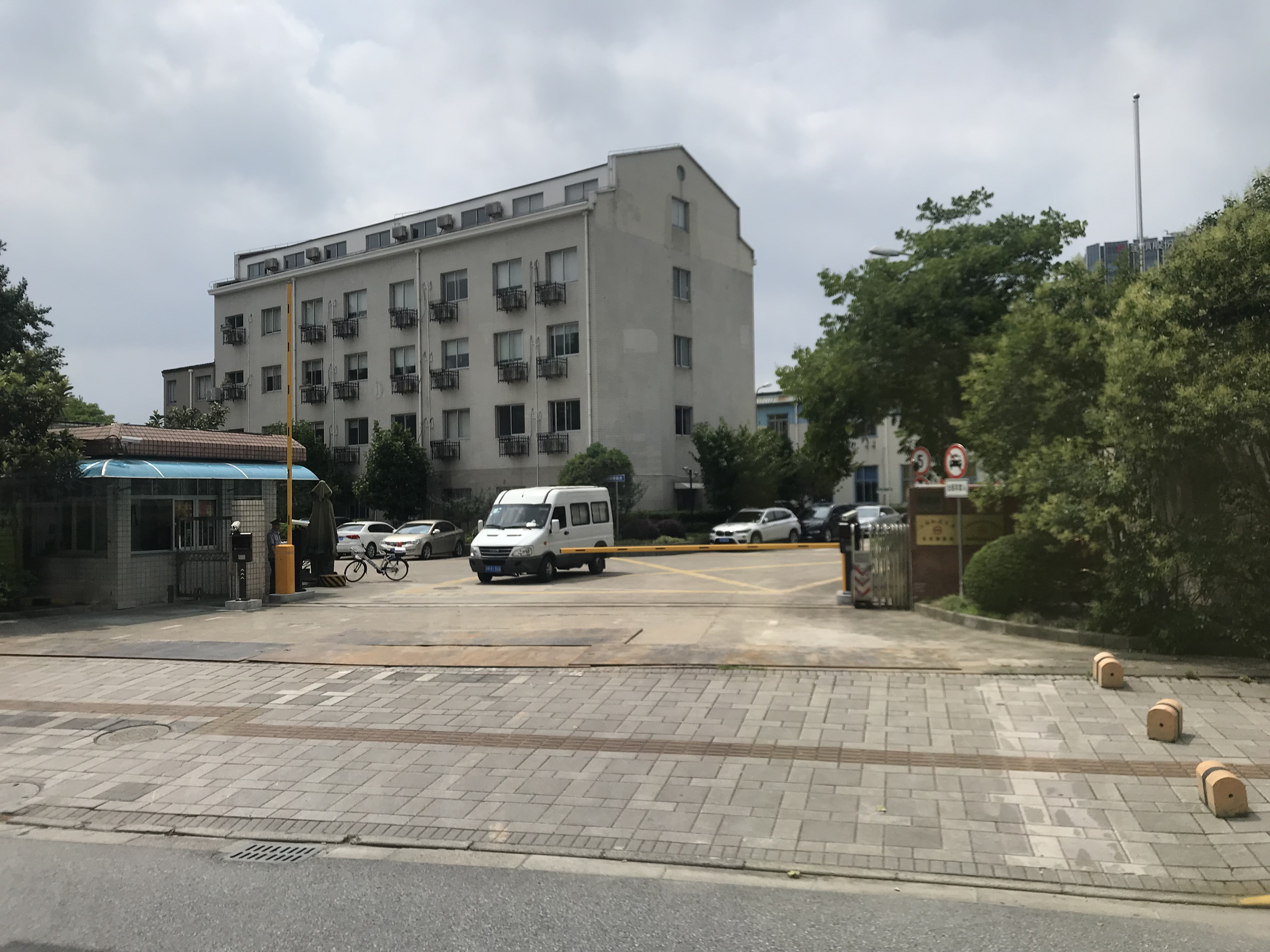 201907 Shanghai Metro Shilong Road Depot